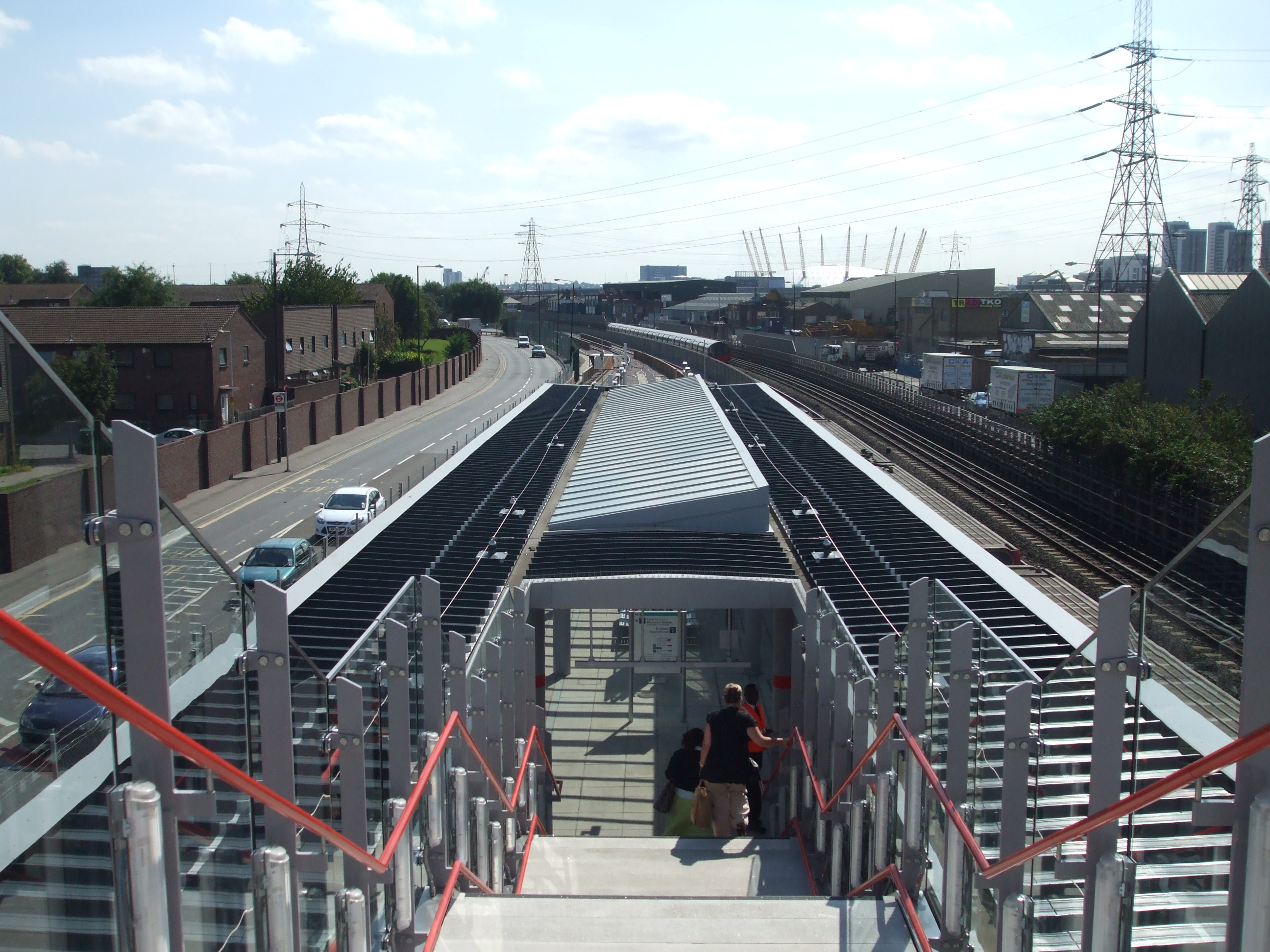 Star Lane DLR station looking south from footbridge, soon after opening.